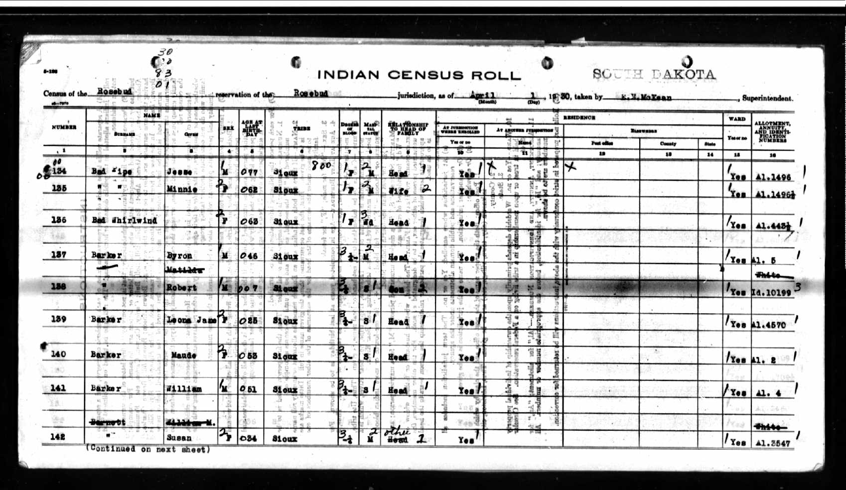 Public domain U.S. Government document.